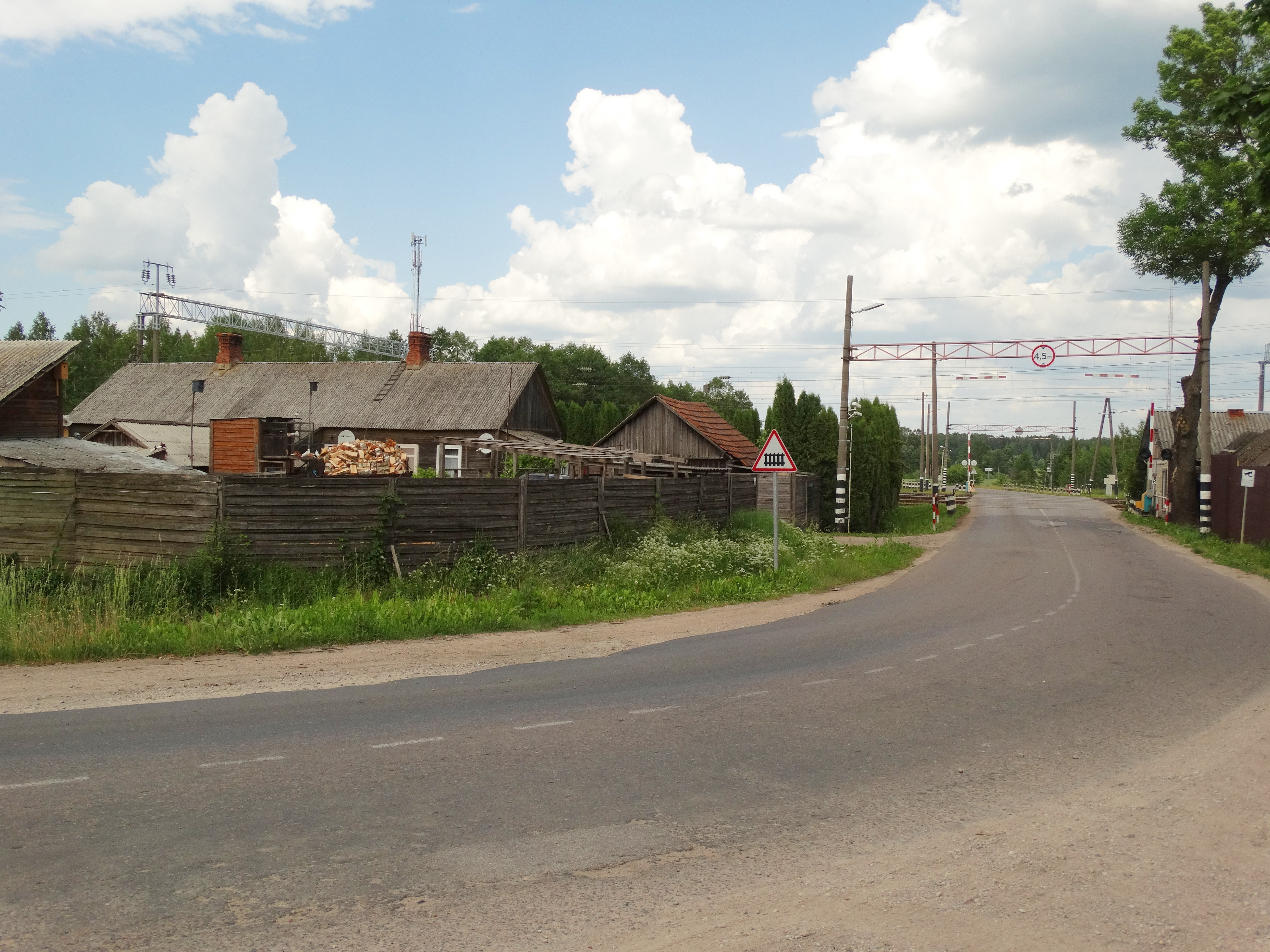 Pravieniškės, Kaišiadorys District, Lithuania